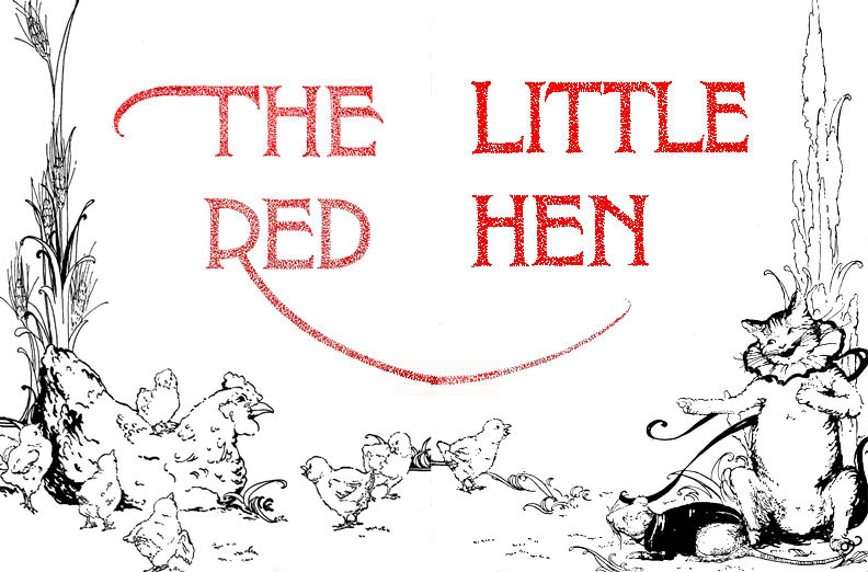 illustration from "The Little Red Hen"